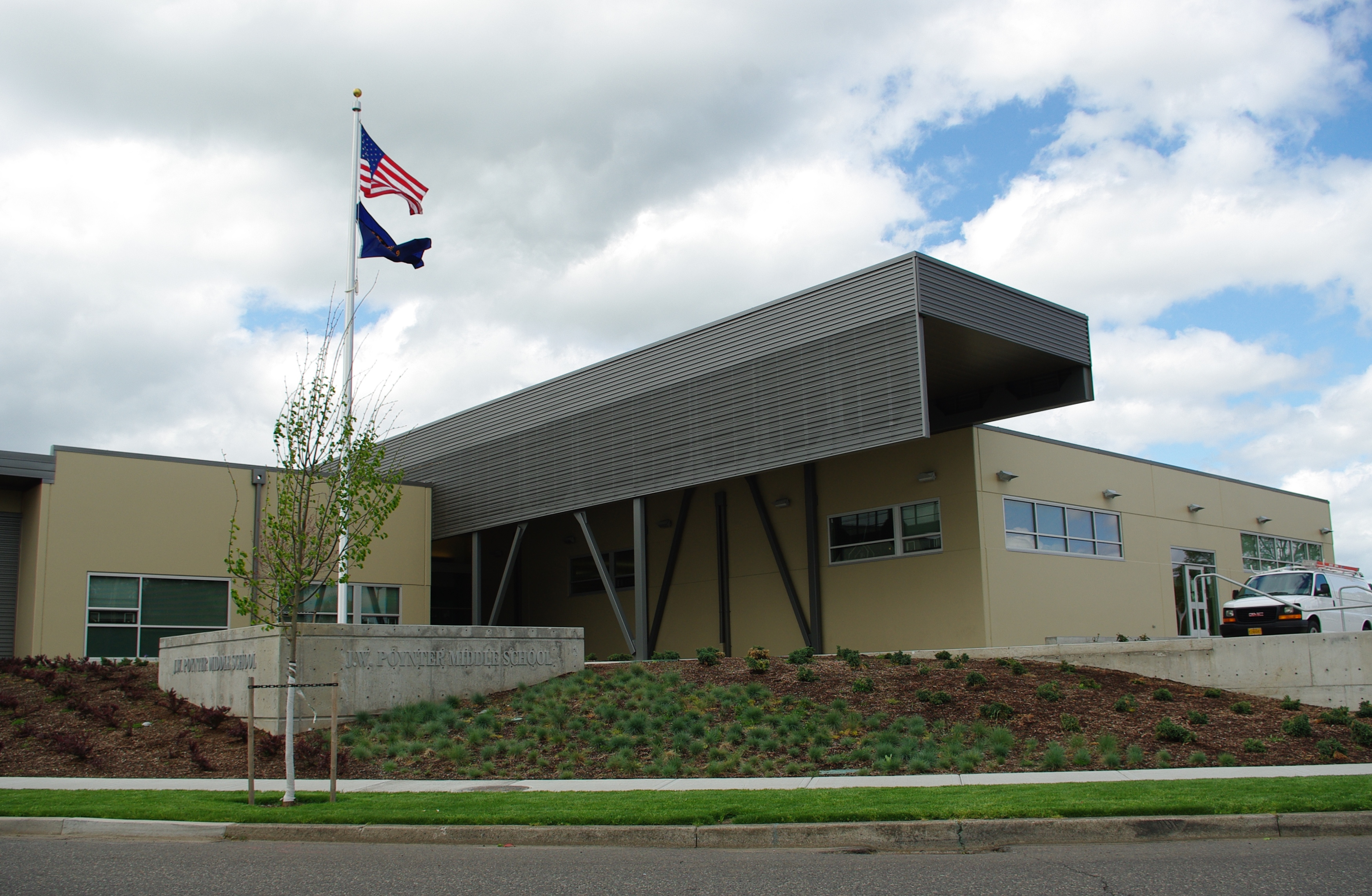 Poynter Middle School in Hillsboro, Oregon, USA.